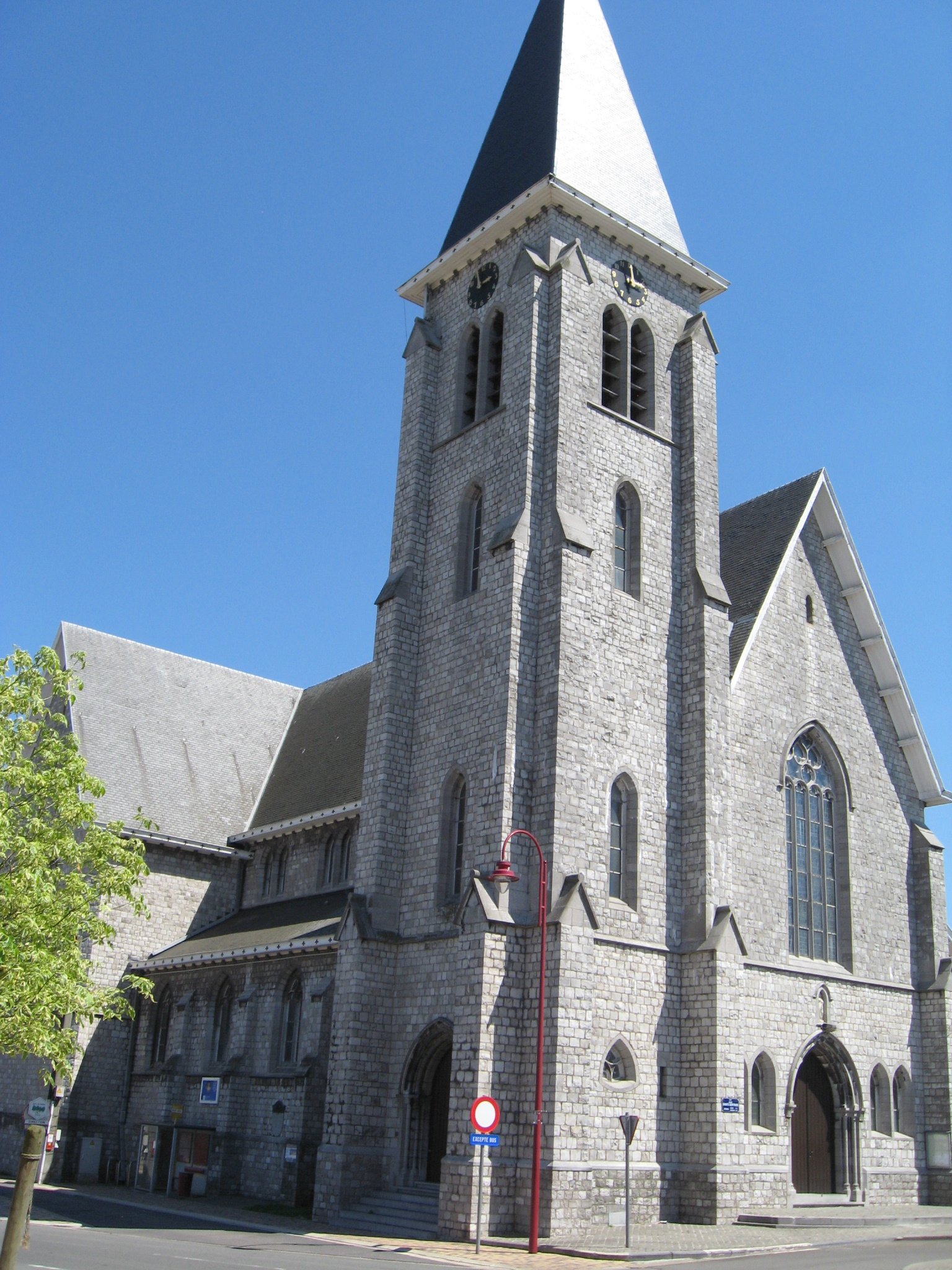 Church of Saint Gertrude in Blegny, Trembleur, Blegny, Liège, Belgium